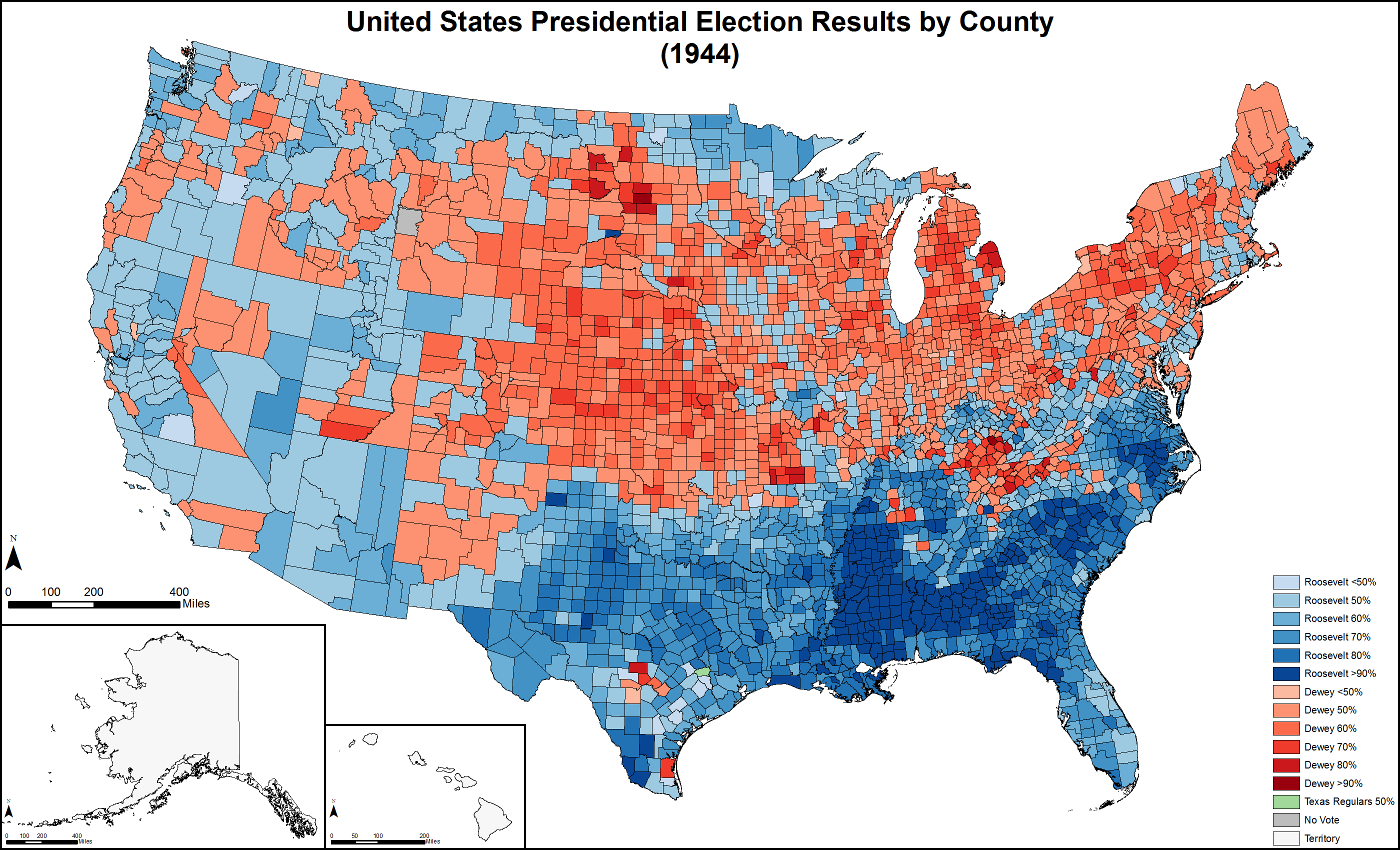 Presidential election results by county (1944). Colors based on Colorbrewer 2.0.